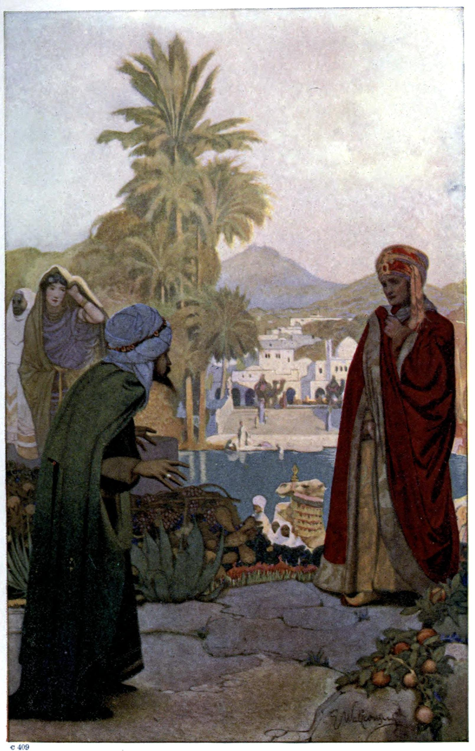 Pioneers in India by Johnston, Harry Hamilton, Sir, 1858-1927 Publication date 1913 Topics India -- Discovery and exploration, India -- History European settlements 1500-1765, India -- History British occupation, 1765-1947 Publisher London [etc.] : Blackie and son, limited Collection cdl; americana Digitizing sponsor MSN Contributor University of California Libraries Language English Bookplateleaf 4 Call number SRLF:LAGE-230522 Camera 5D Collection-library SRLF Copyright-evidence Evidence reported by alyson-wieczorek for item pioneersinindia00johniala on June 18, 2007: no visible notice of copyright; stated date is 1913. Copyright-evidence-date 20070618175118 Copyright-evidence-operator alyson-wieczorek Copyright-region US Identifier pioneersinindia00johniala Identifier-ark ark:/13960/t8bg2ks7d Identifier-bib LAGE-230522 Lcamid 1020705142 Openlibrary_edition OL7099511M Openlibrary_work OL1094605W Pages 372 Full catalog record MARCXML